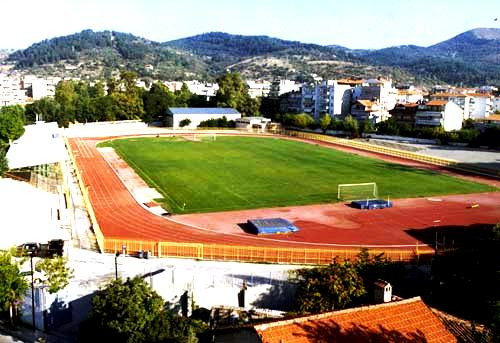 Edessas stadium